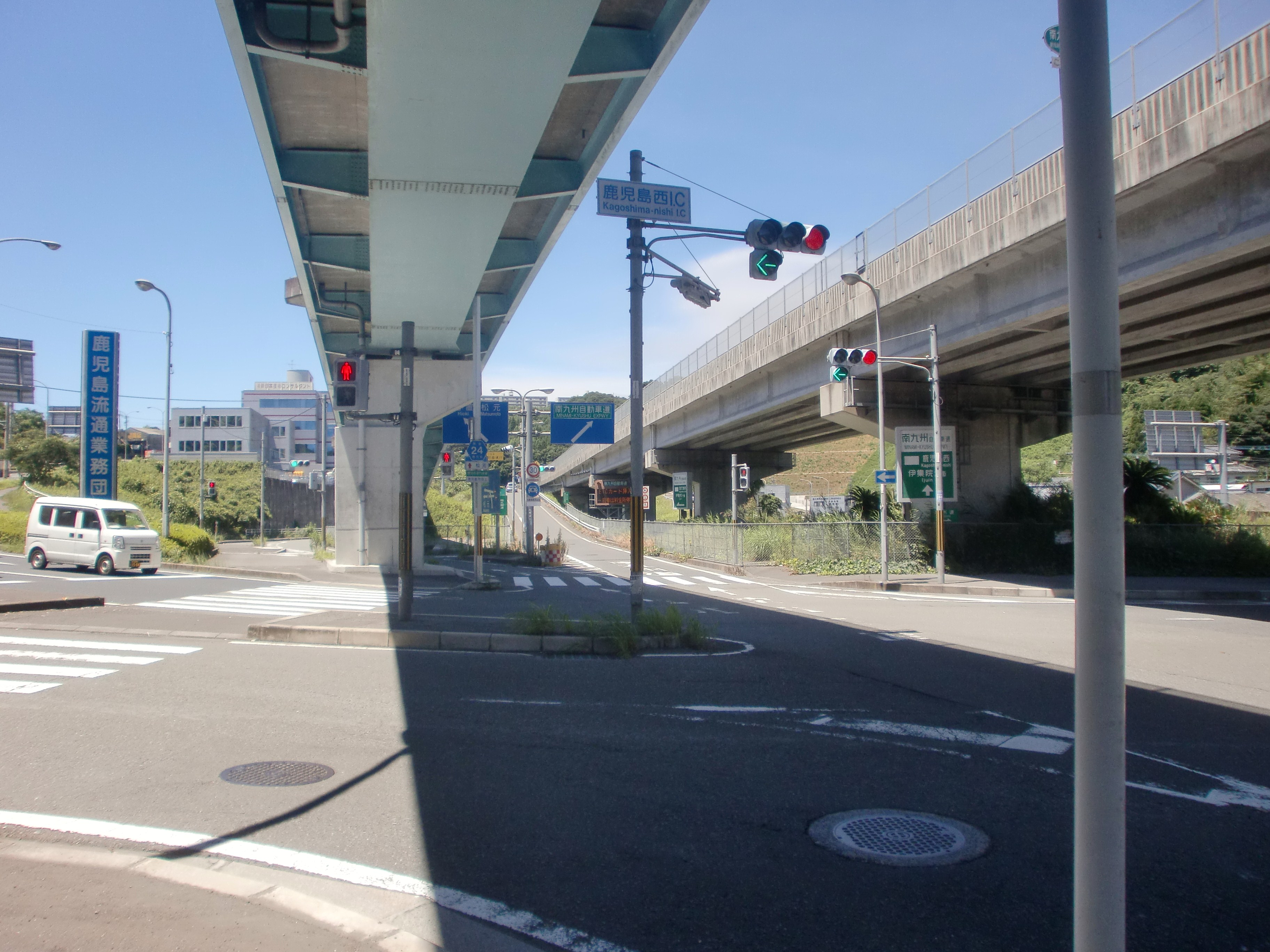 Kagoshima-nishi Interchanges on the MInami-Kyushu Expressway in Kagoshima City, Kagoshima Prefecture, Japan